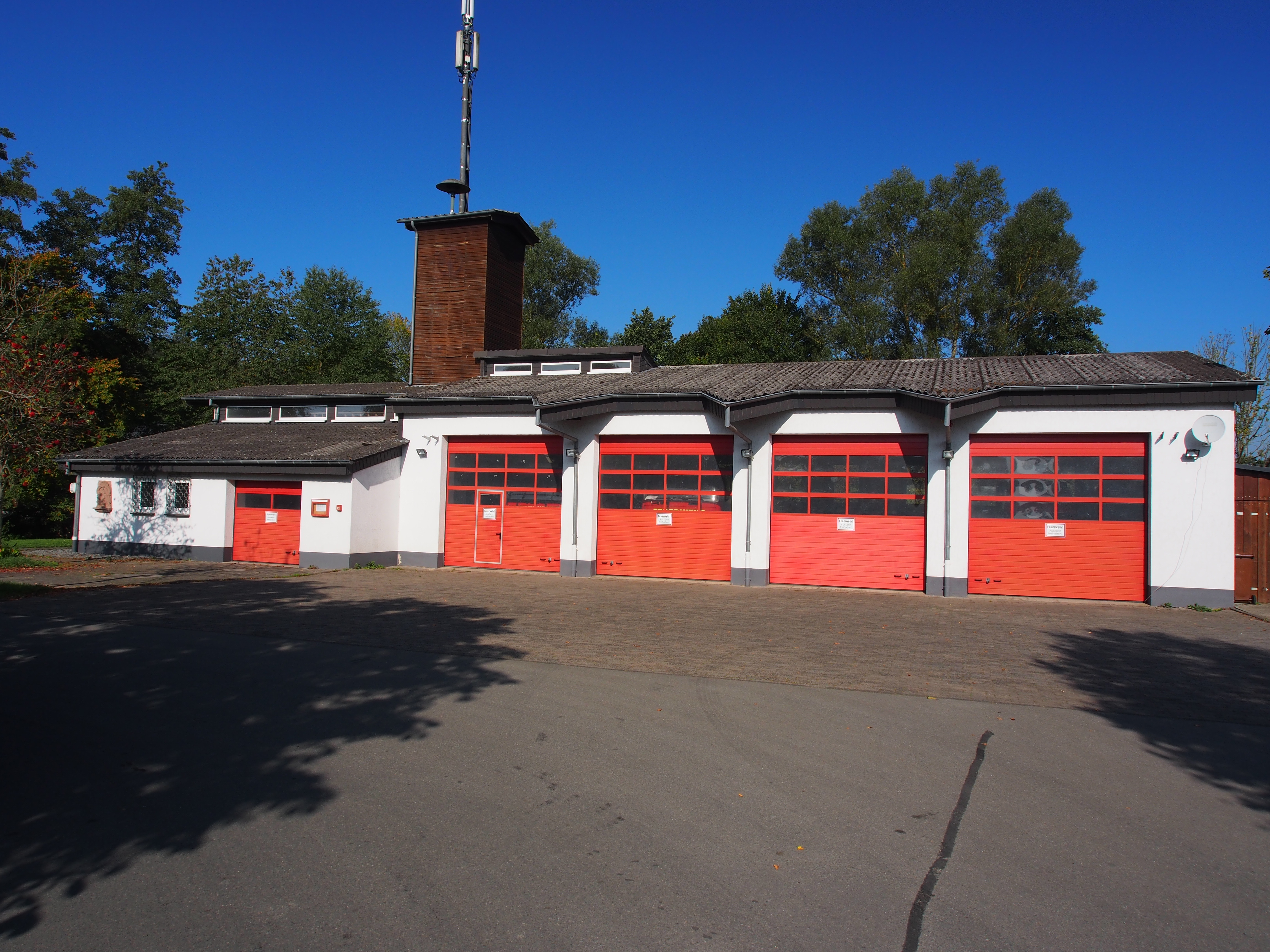 Photographed in Germany.